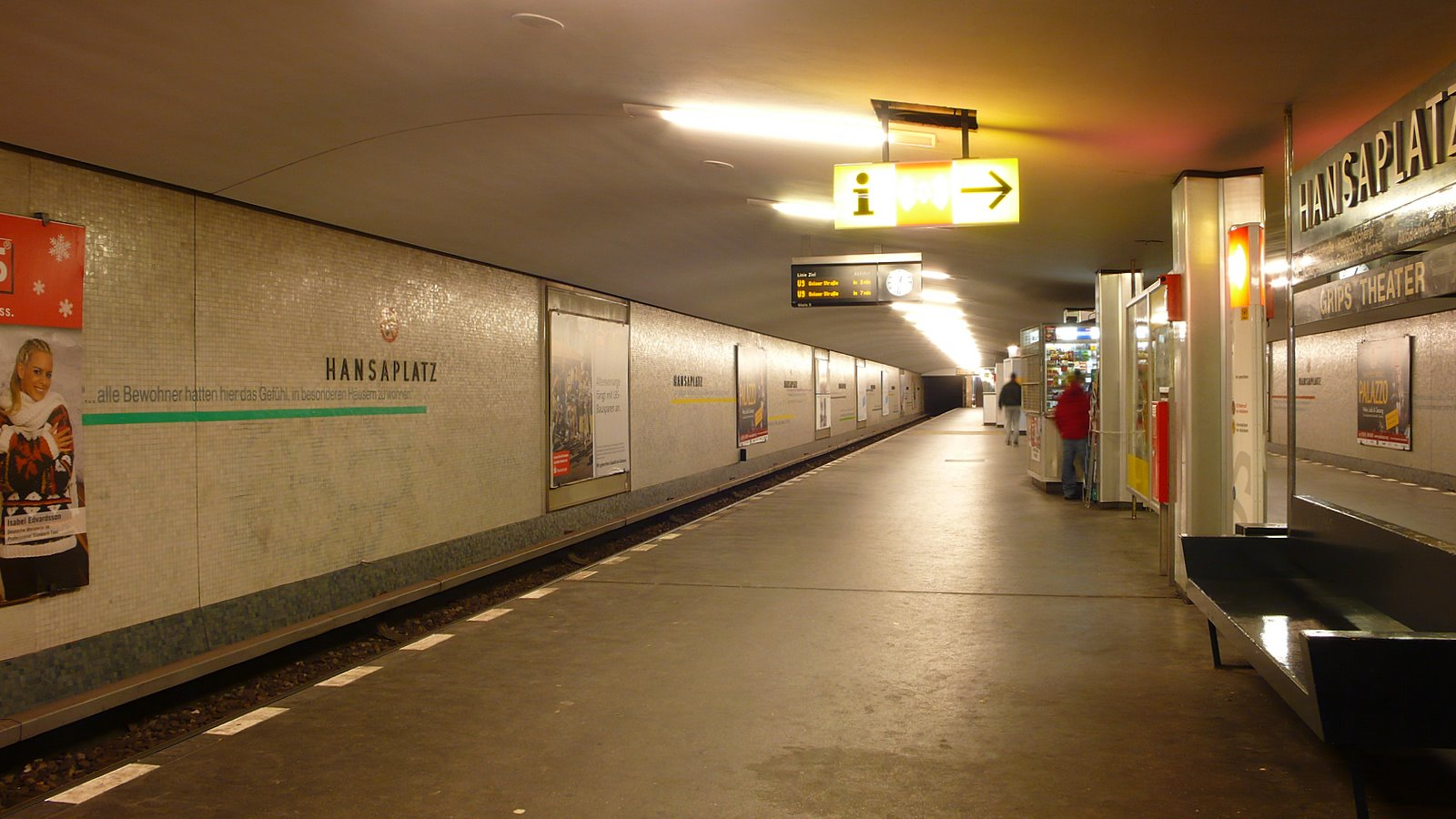 Hansaplatz subway Berlin